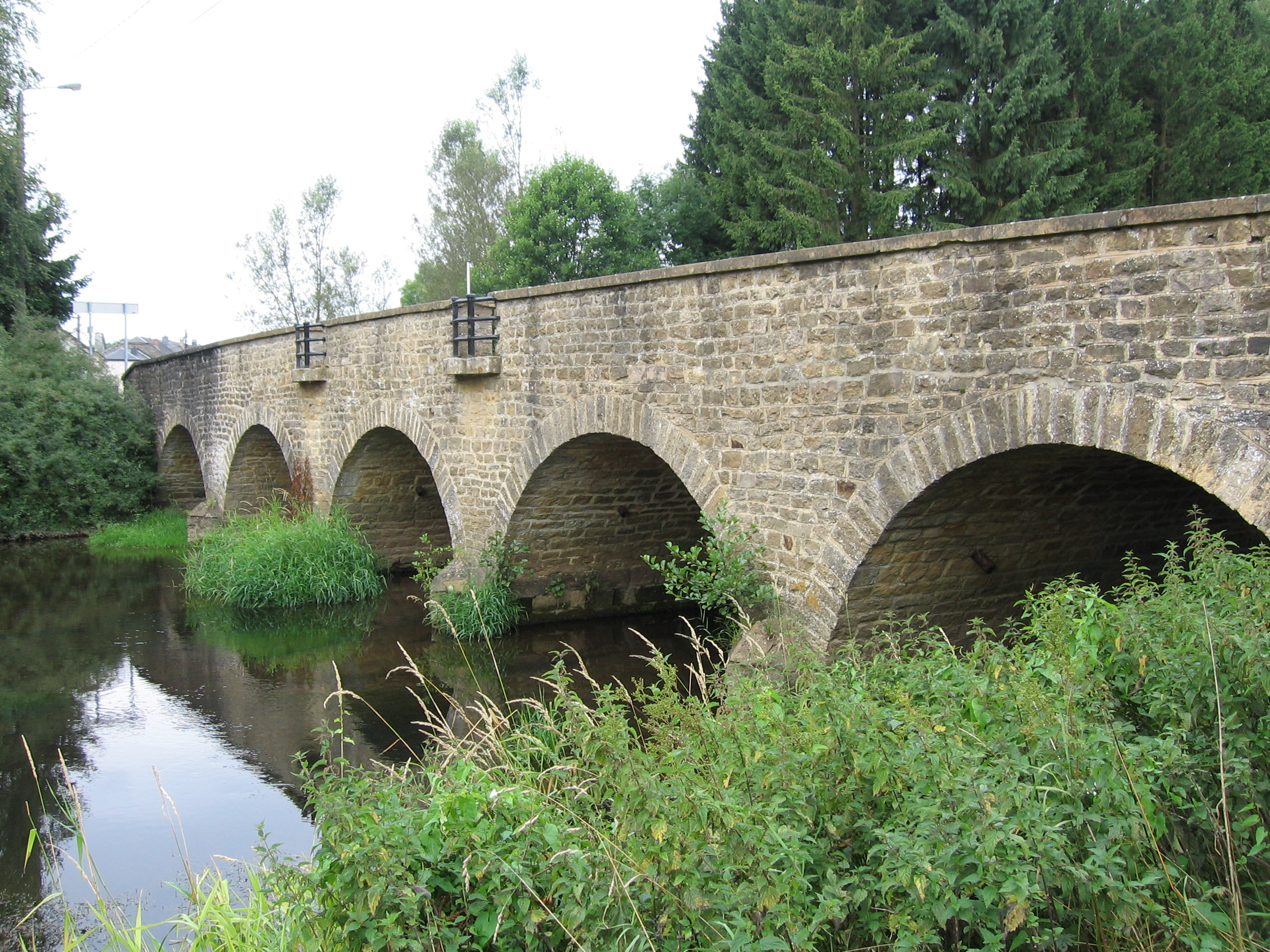 In Rulles (Belgium): the bridge over the Rulles... rue Maurice Grevisse